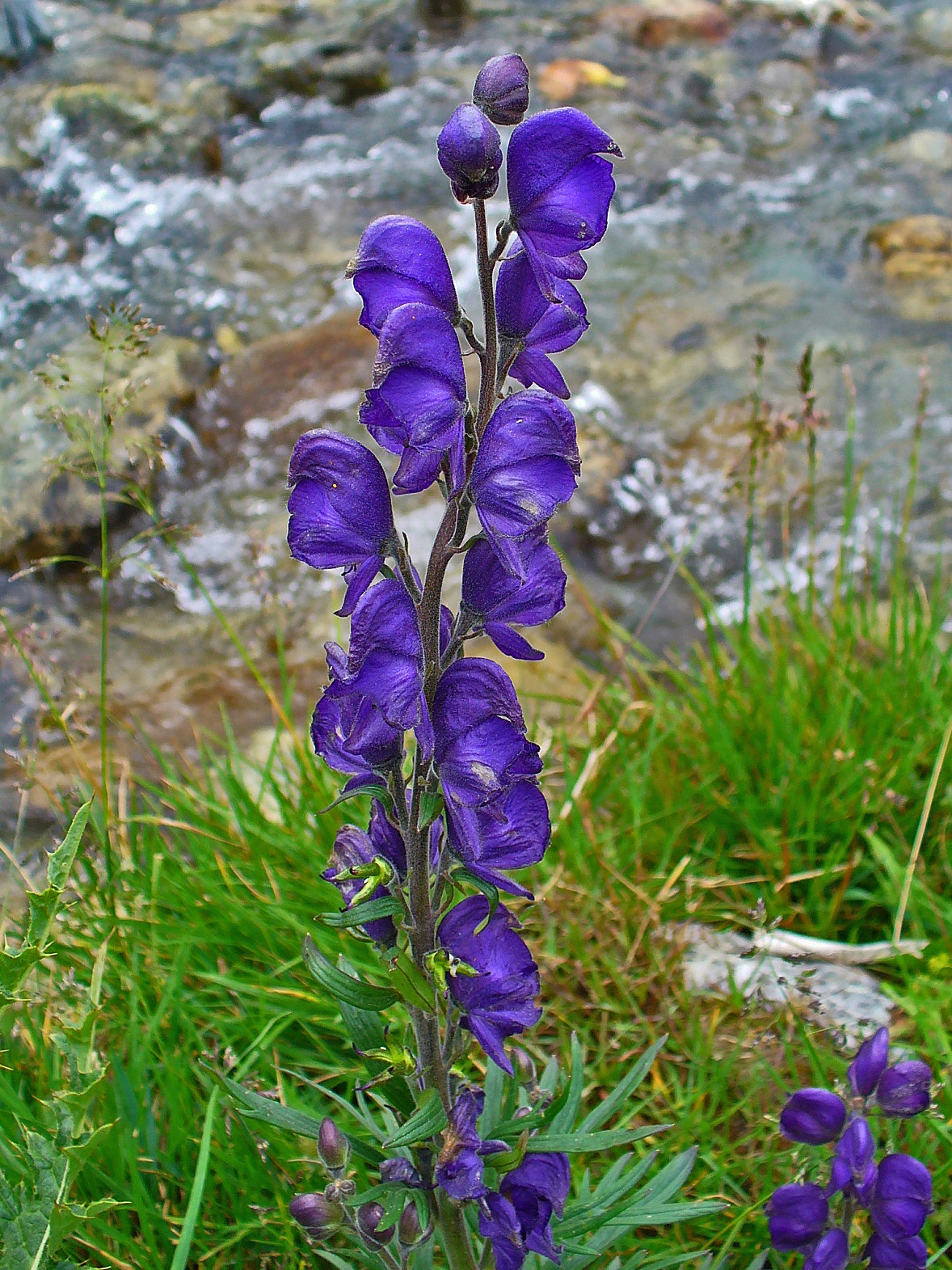 Aconitum napellus, Ranunculaceae, Monkshood, Wolf's Bane, Monk's Blood, Monk's Hood, inflorescence; Muottas Muragl, Engadin, Switzerland, altitude ca. 2400 m.